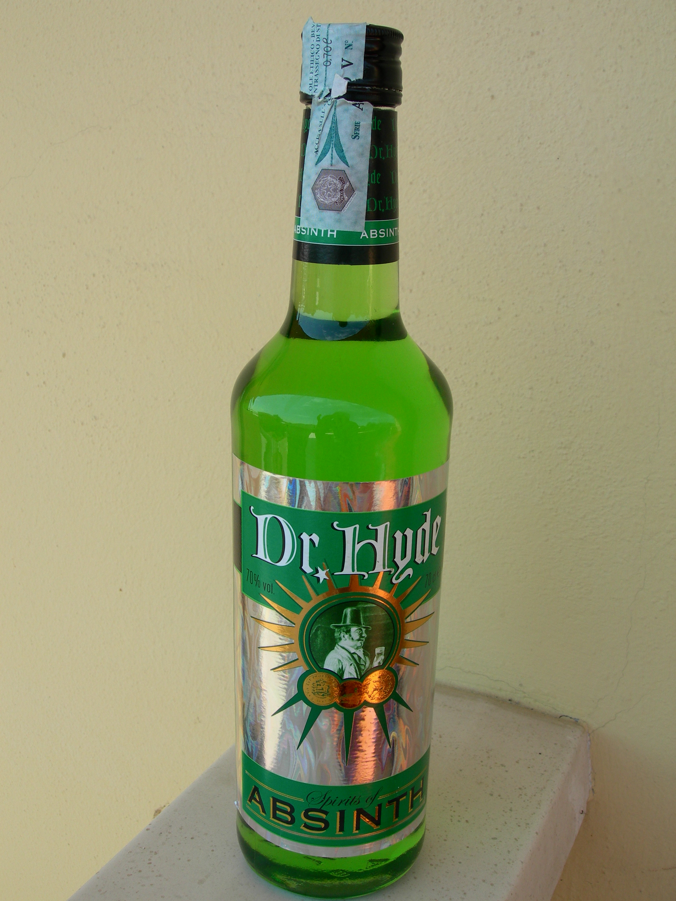 A bottle of absinthe.